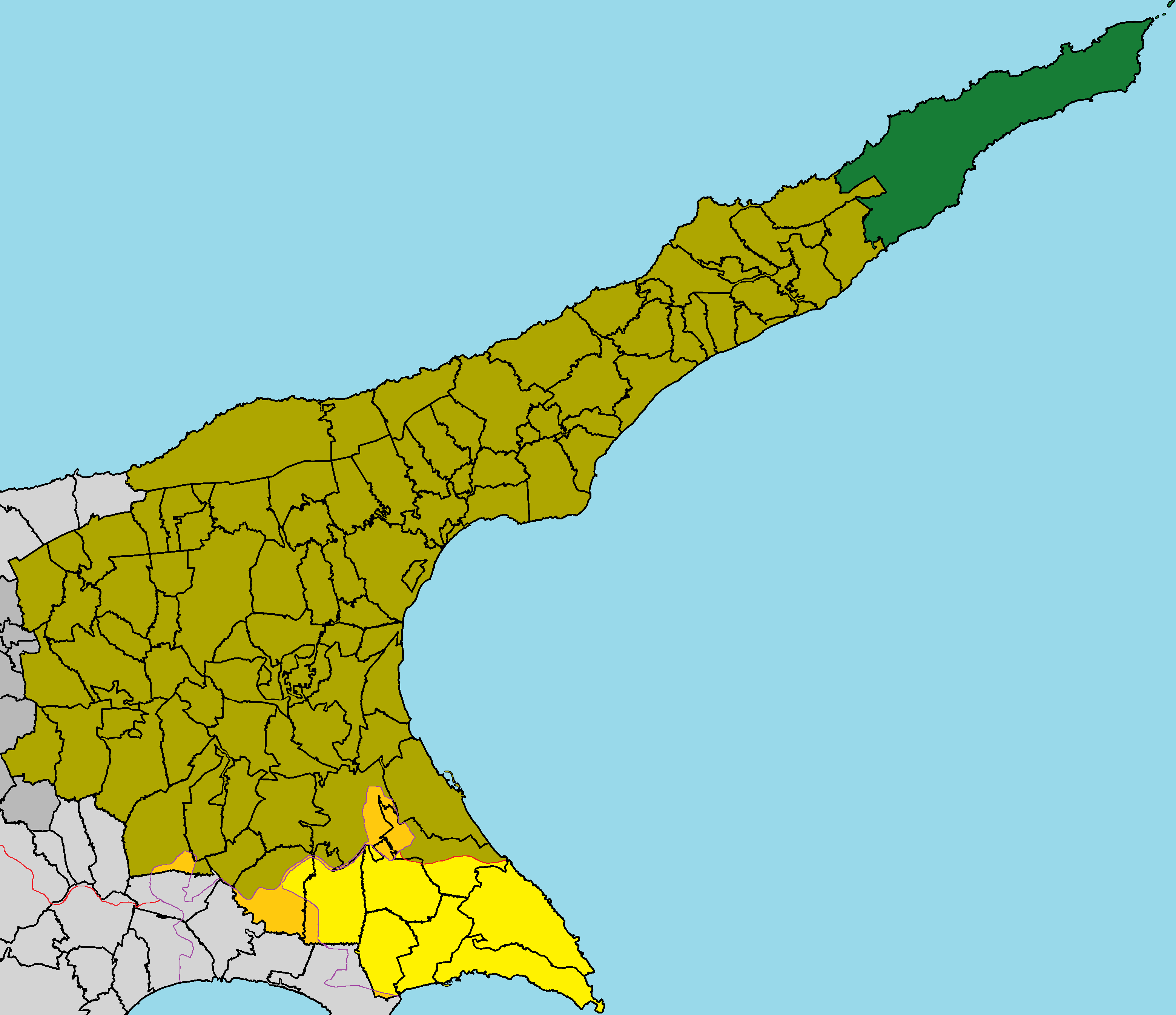 Rizokarpaso in Famagusta District (de jure).